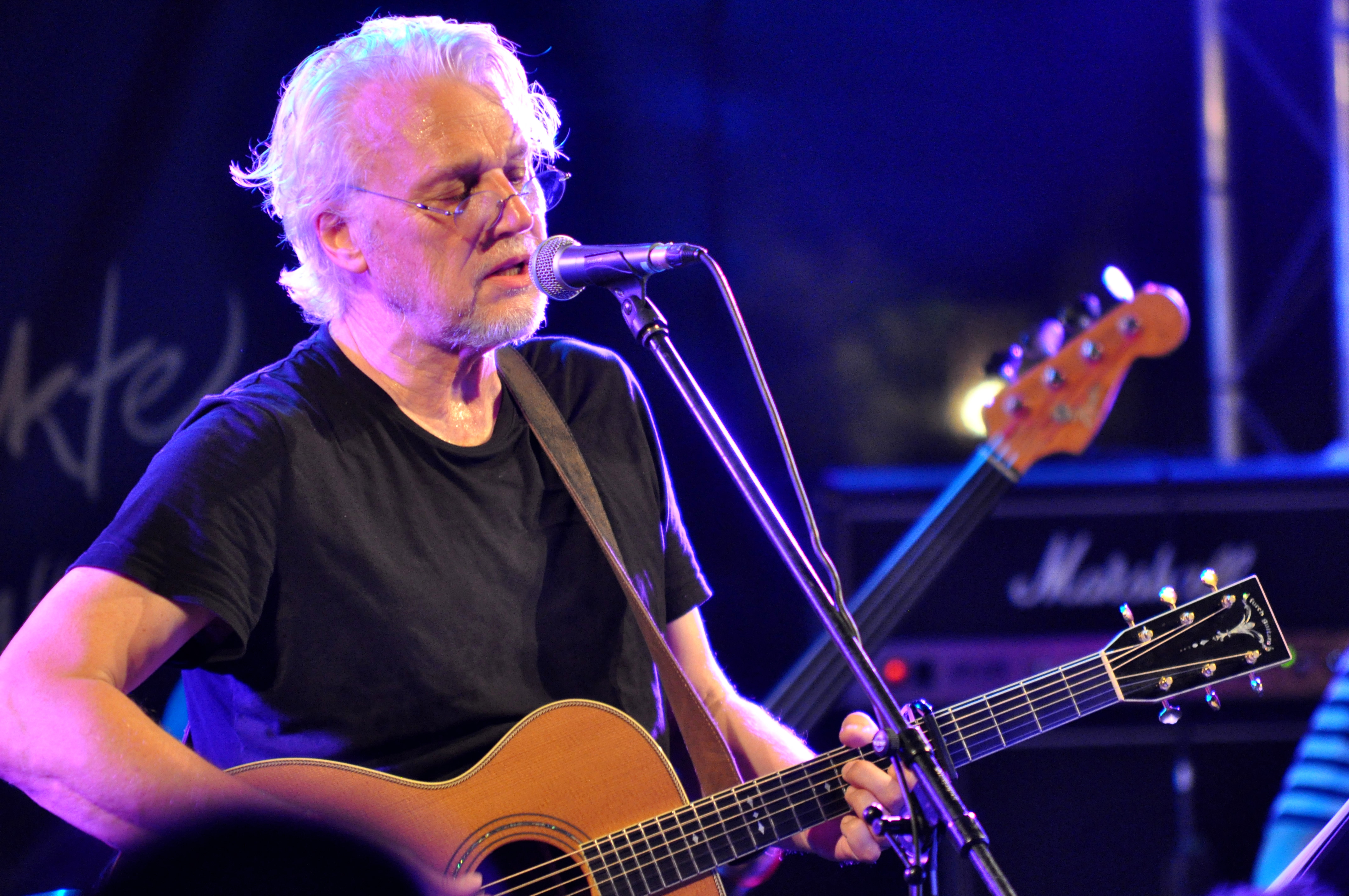 David Knopfler (GBR) appearance at the 2017 blacksheep festival at Bonfeld castle, Bad Rappenau, Baden- Wuerttemberg, Germany Festivalsommer This photo was created with the support of donations to Wikimedia Deutschland in the context of the CPB project "Festival Summer".